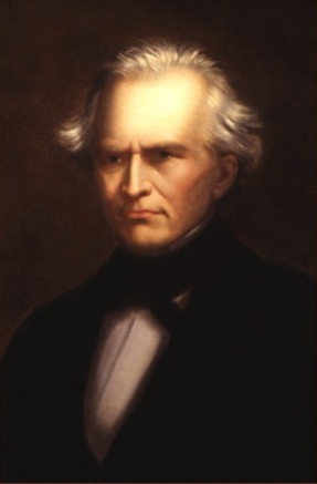 Samuel Beardsley, Congressman and Judge from New York